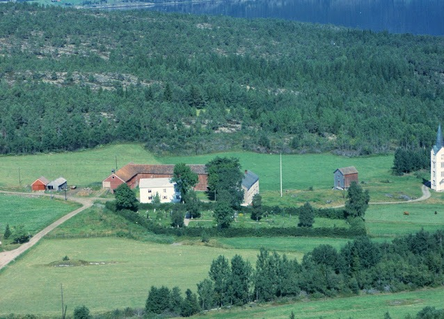 The farm Vestvik Nedre in Framverran, Inderøy, Norway. Photo from Mosvik municipality archives in cooperation with Mosvik historielag.